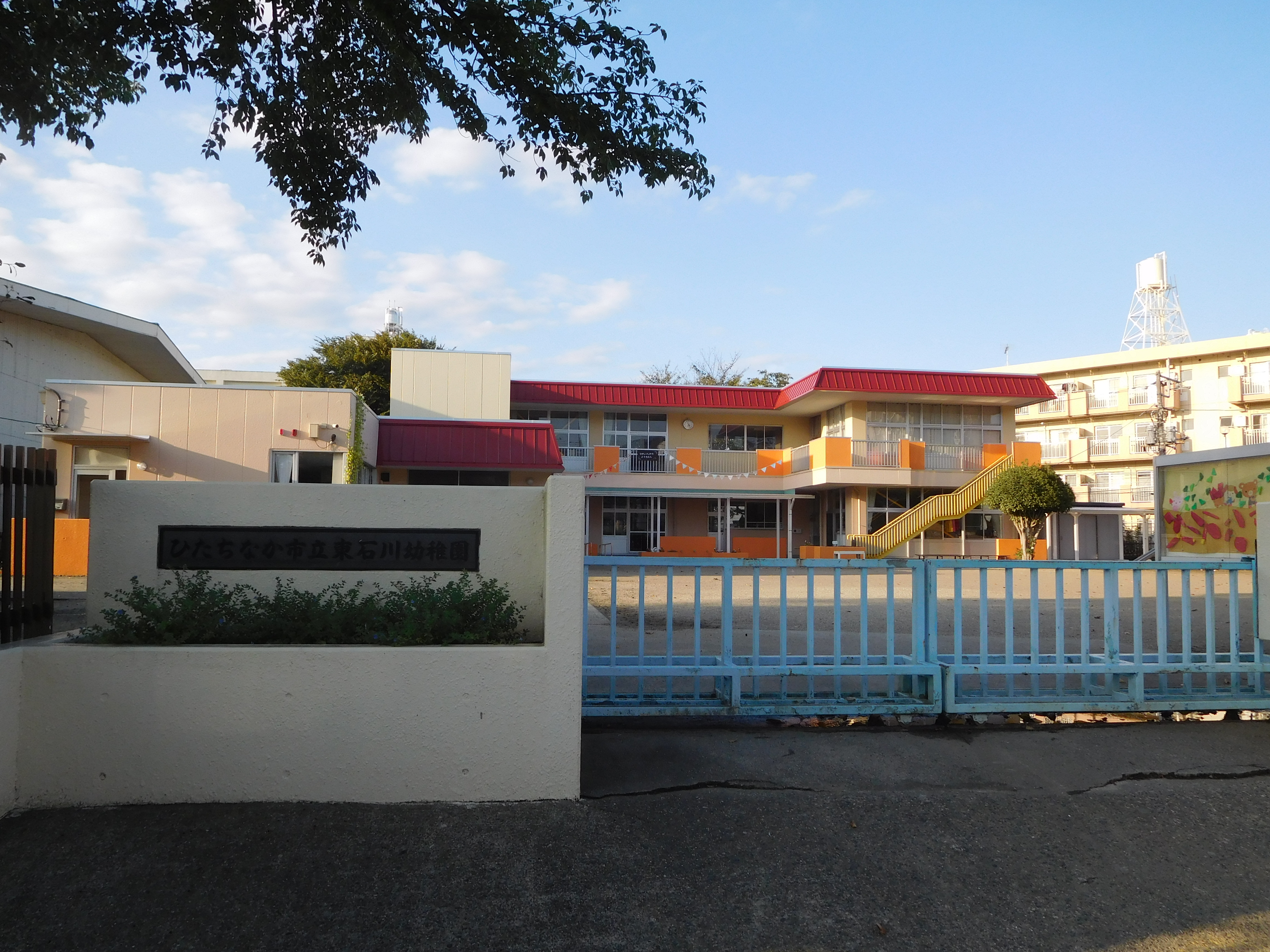 This is Hitachinaka city Higashi-Ishikawa Kindergarten in Ibaraki, Japan.